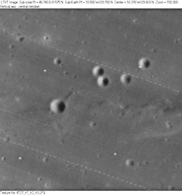 LO-IV-127H Sampson is the largest of the craters in this very small field about 98 km south of the center of Mare Imbrium.